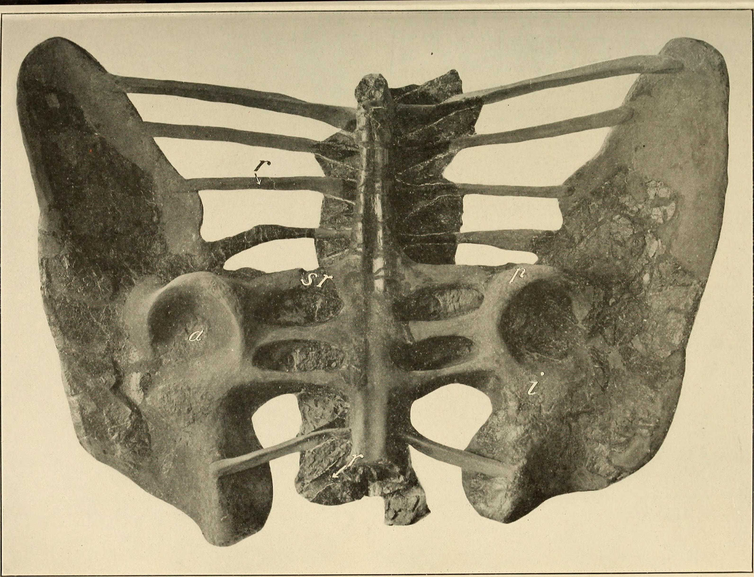 Title: The American journal of science Year: 1880 (1880s) Authors: Subjects: Science Publisher: New Haven : J. D. & E. S. Dana Text Appearing Before Image: Am. Jour. Sci., Vol. I, February, 1921 Plate II Text Appearing After Image: '